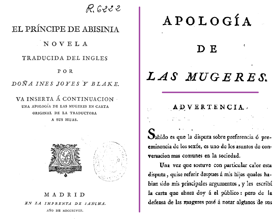 Inés Joyes y Blake (27 December 1731 – 1808) was a Spanish translator and writer of the Age of Enlightenment. She became known in the field of letters with her translation of the novel The History of Rasselas, Prince of Abissinia by Samuel Johnson. Her edition of this work includes a text of her own, entitled "Apología de las mujeres", which constitutes one of the first feminist essays in Spain